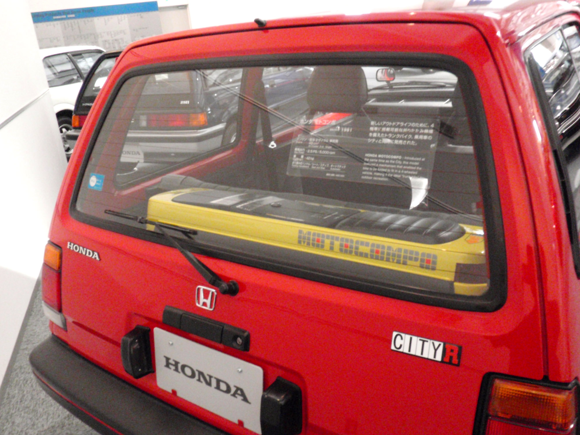 Honda City R (AA) with Motocompo at Honda Collection Hall, Twin Ring Motegi